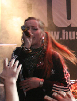 Fröken på Huset, Huddinge 08